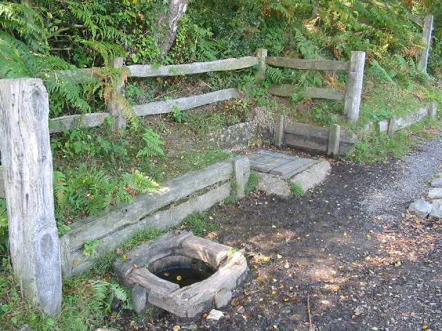 Abbots Well near Frogham in the New Forest. Abbots well was formerly known as Alleynewell within the ancient boundaries of the New Forest when defined during the reign of King Edward 1 (1272-1307)This perpetual spring was,for centuries the main watering place for travellers on the old road to Southampton.